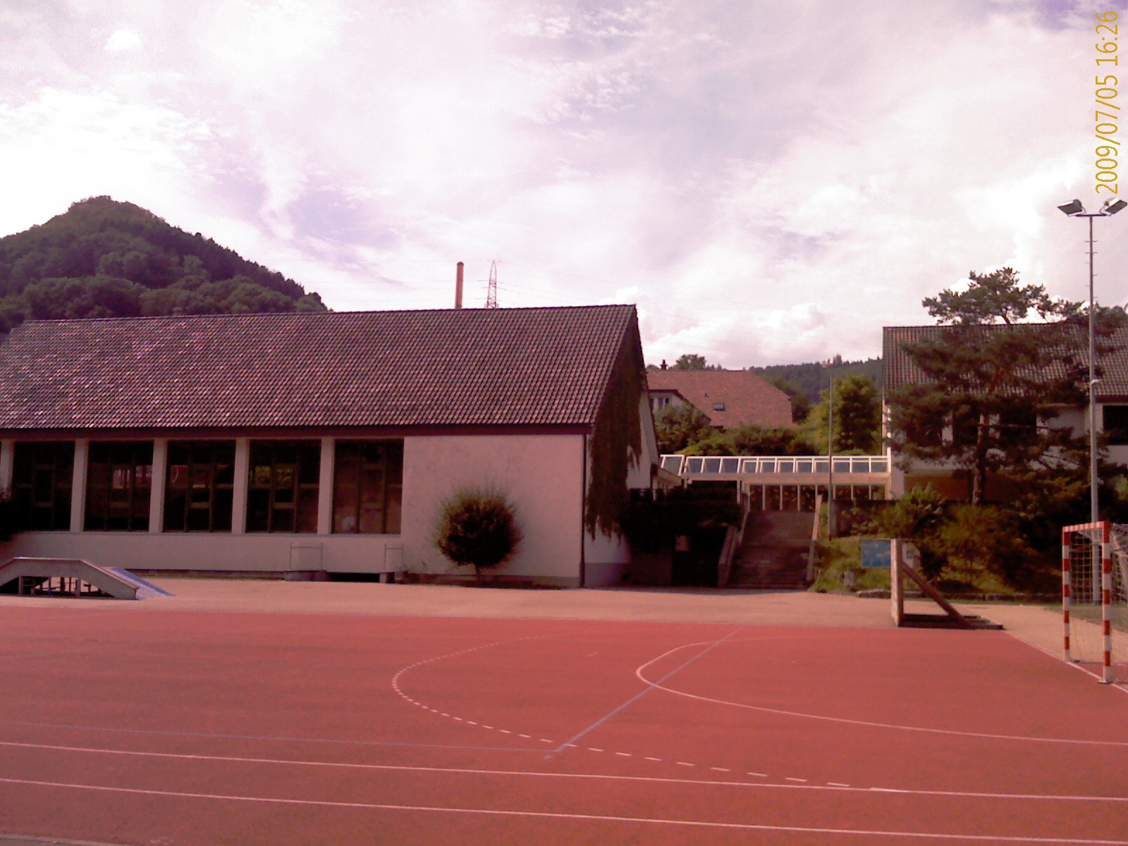 Wittnau - school, canton of Aargau, SwitzerlandEsperanto: Wittnau - lernejo, Kantono Argovio, Svislando